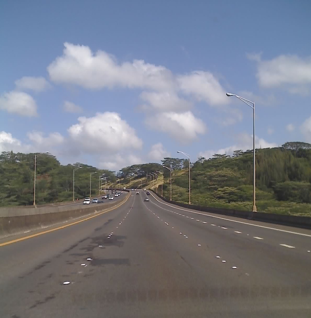 H2 freeway in Mililani, Wahiawa bound.